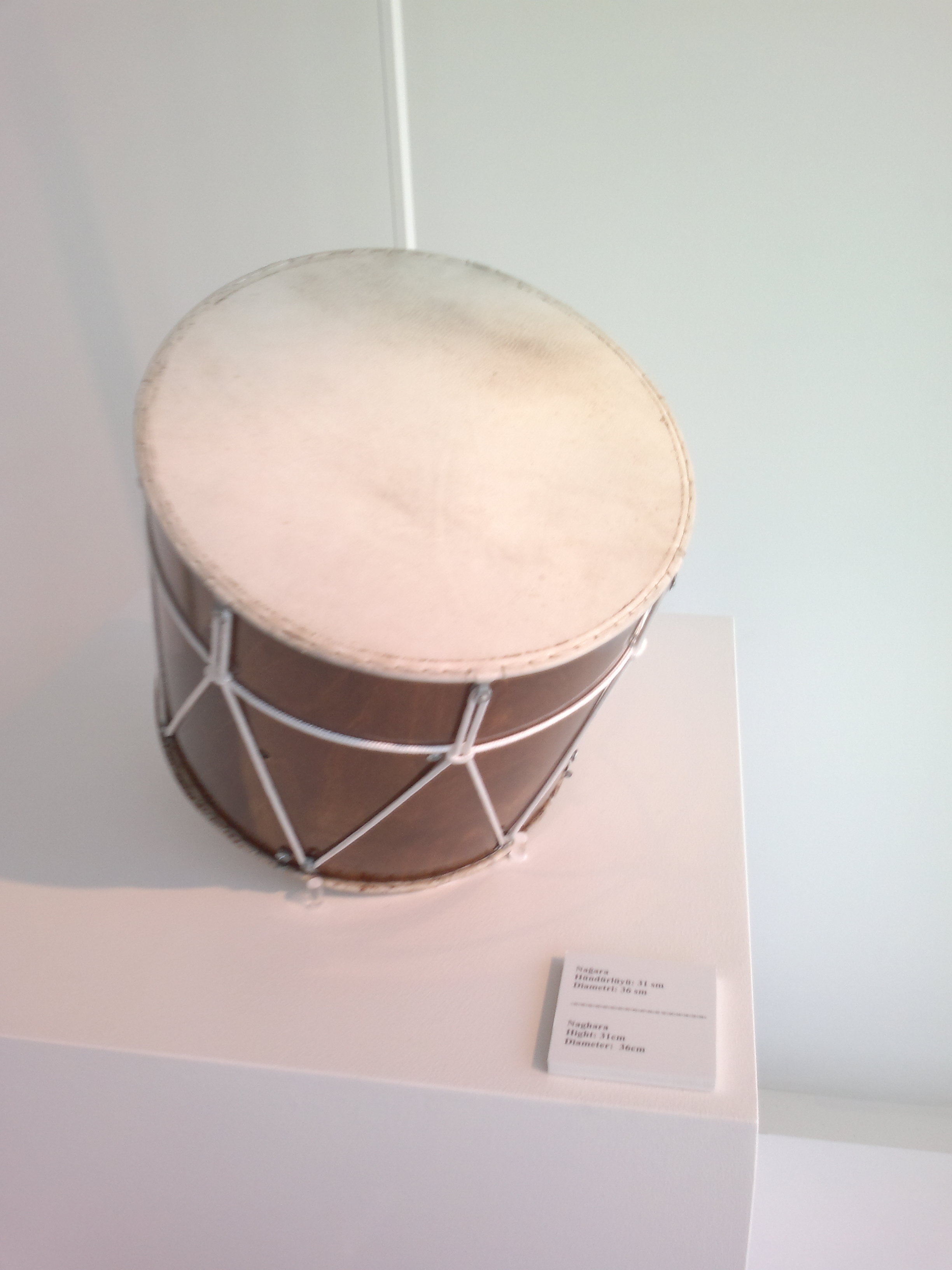 Azerbaijani musical instrument naghara in Heydar Aliyev Center